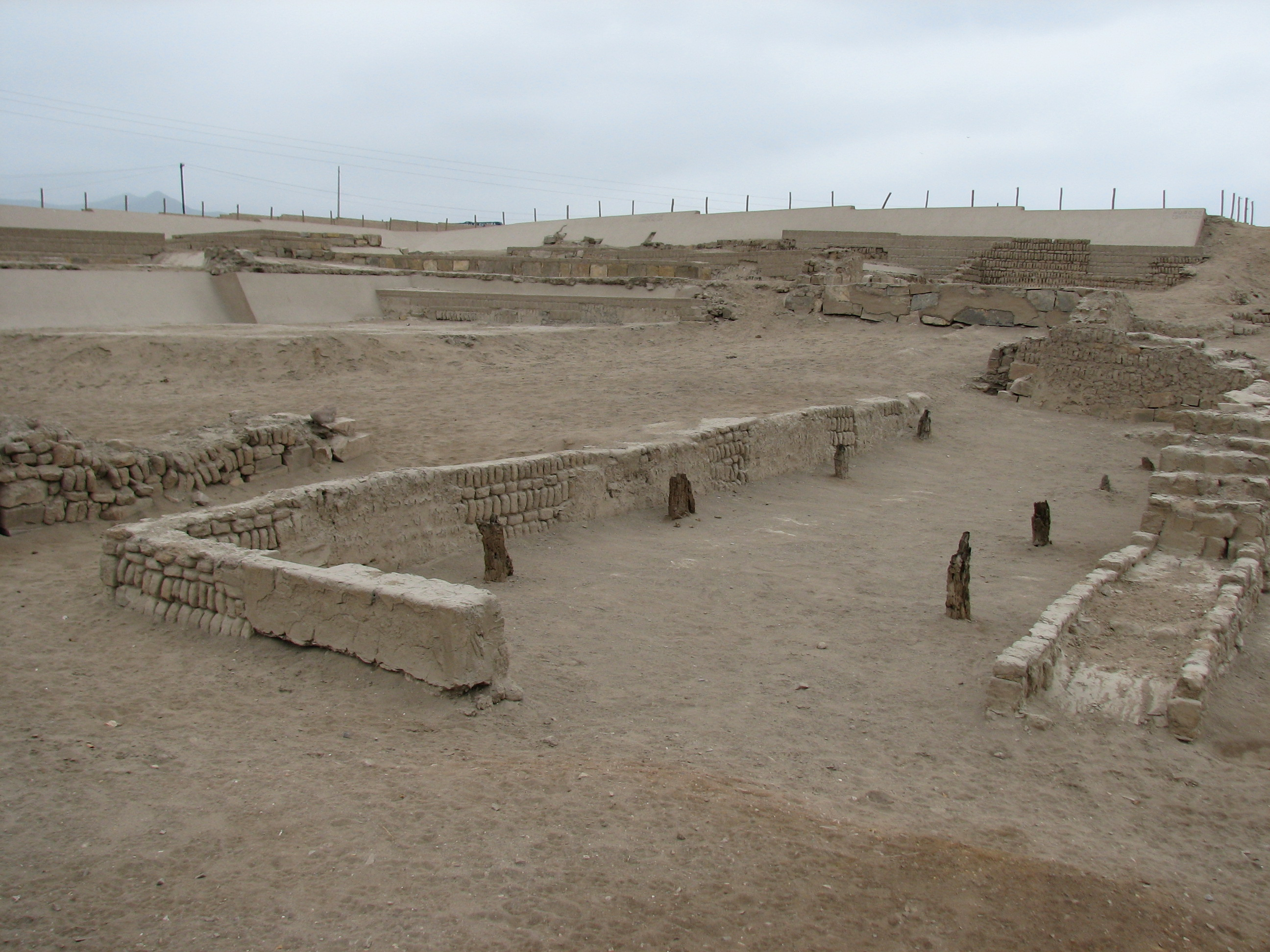 Pachacamac archaeological site in Peru